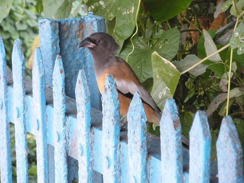 Juvenile Rufous Treepie (Dendrocitta vagabunda) in Hugli-Chunchura, india.